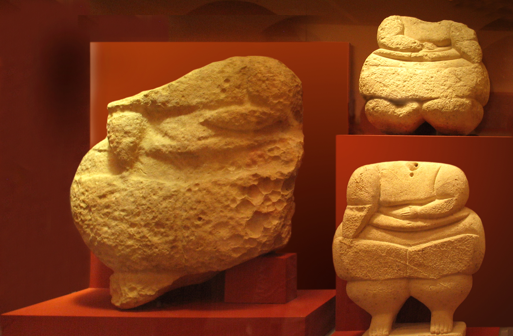 Figurines from Ħaġar Qim, National Museum of Archaeology of Malta.